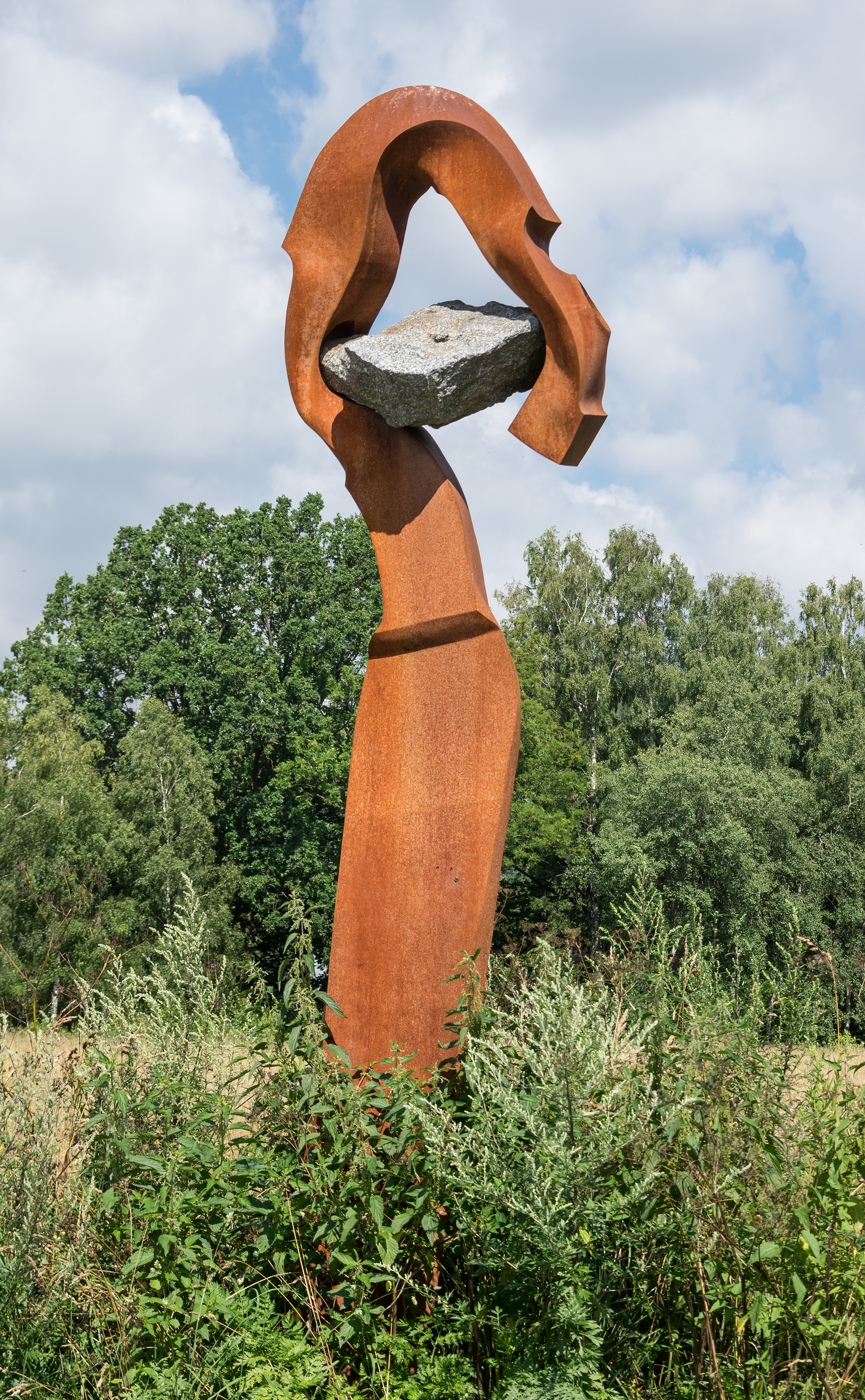 Sculpture by Piotr Twardowski in Gaj